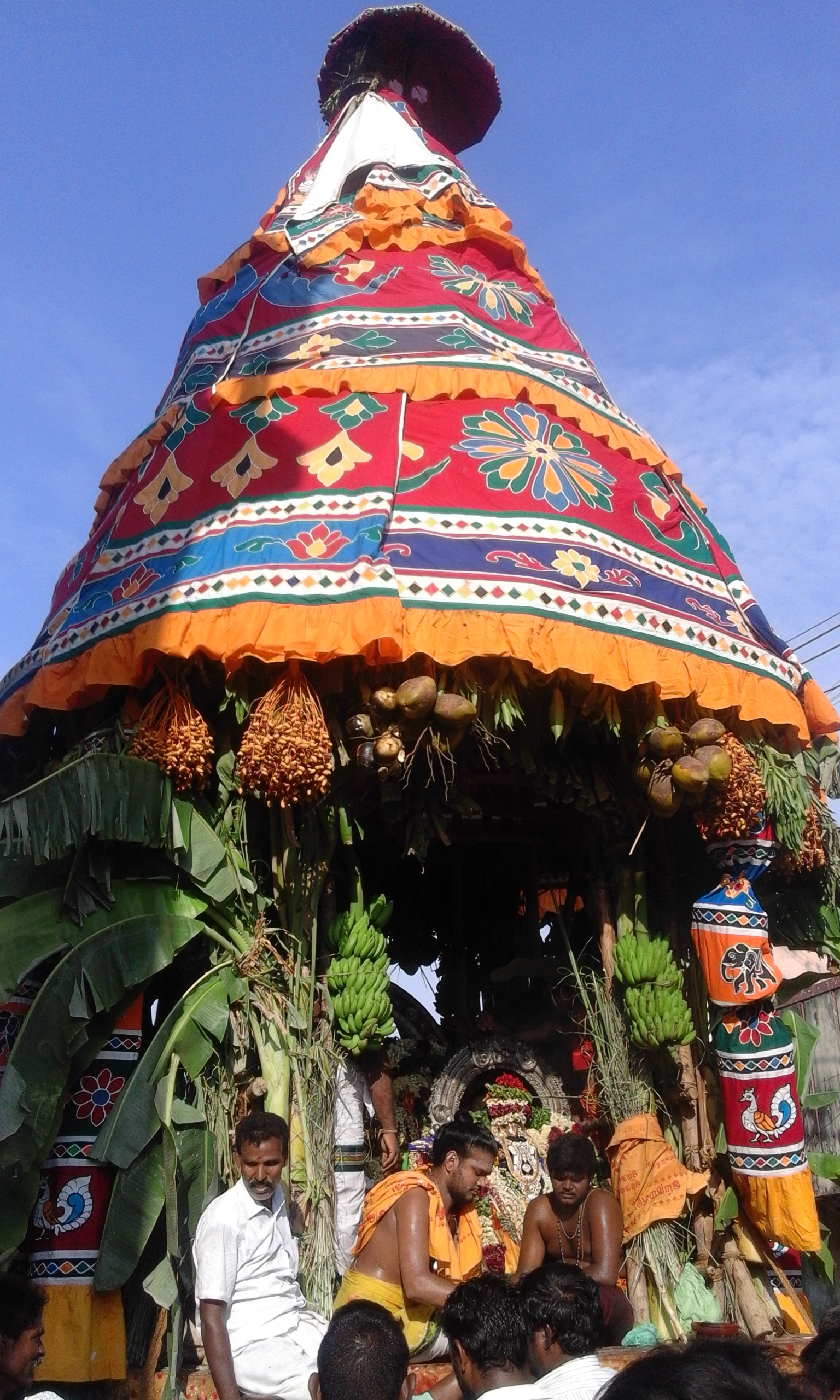 In May 2017, car festival went on in Sithalingamadam. That ceremony is featured in this image